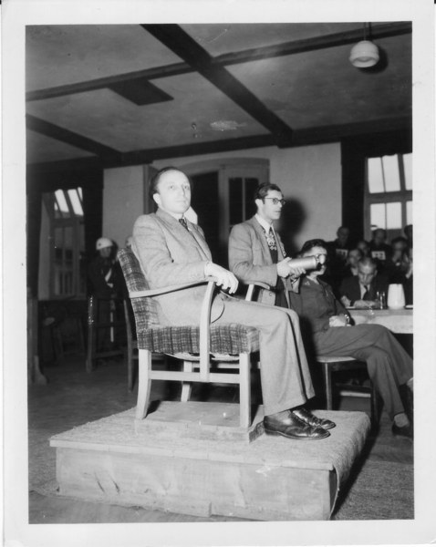 16 Apr. At the Buchenwald War Crimes Trial, Dachau, Germany, is shown from l-r: Dr. Sitte, witness for the prosecution; Werner Klein, radio reporter; and Herbert Rosenstock, translator. The defendants are on trial for atrocities committed at the Buchenwald concentration camp.